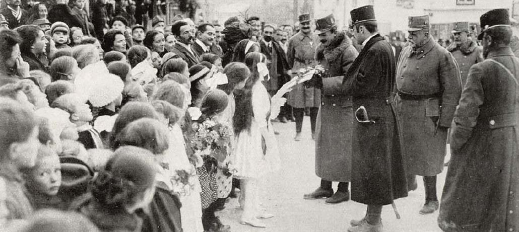 Austrohungarian emperor Karl visiting Cortina D'Ampezzo, taken by its army after Isonzo.